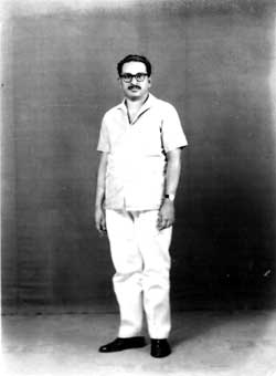 CJ Yesudasan (Cartoonist) at Shanker's Weekly, New Delhi in 1963.